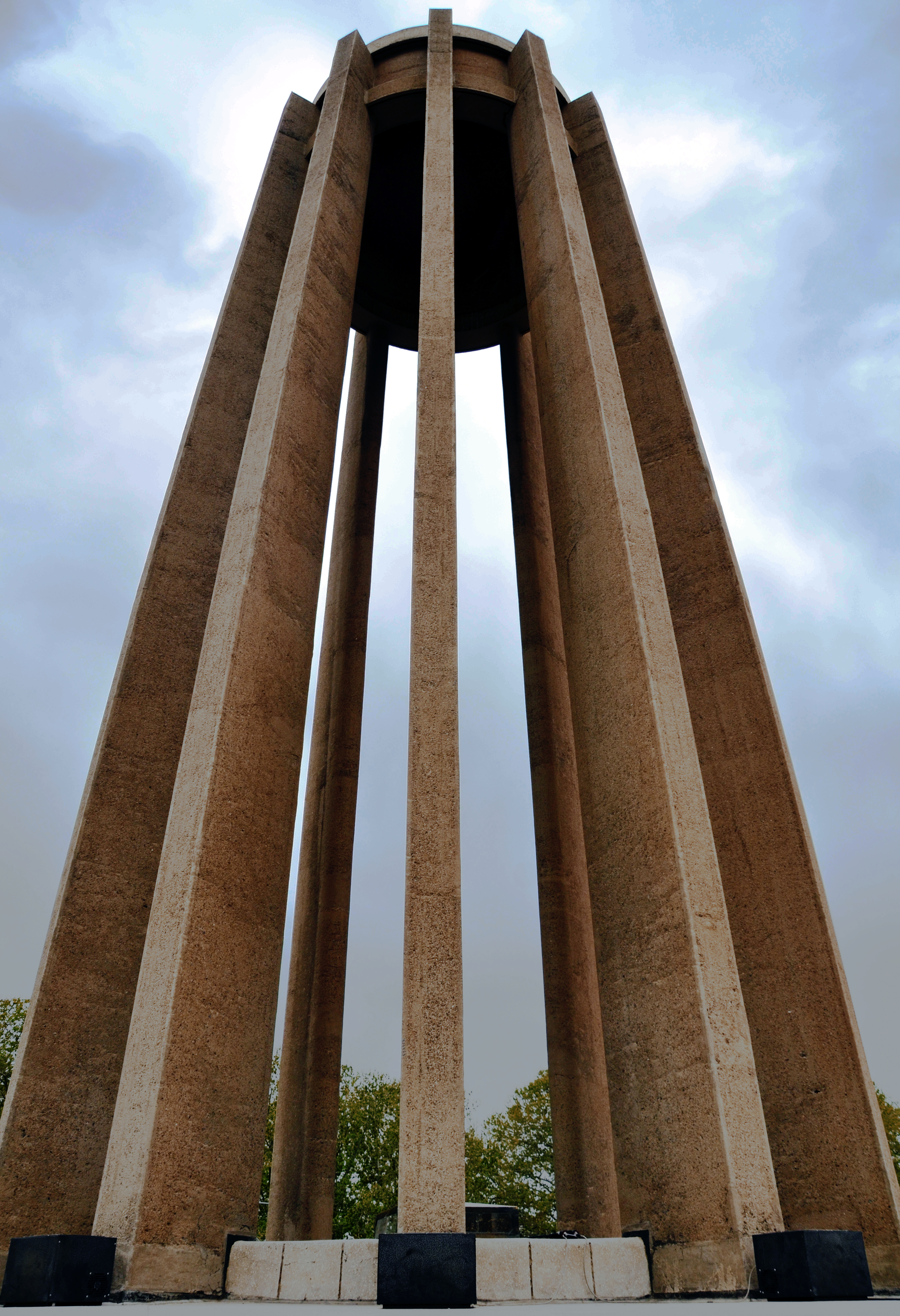 Iran - Hamedan - The Tomb of Avicenna